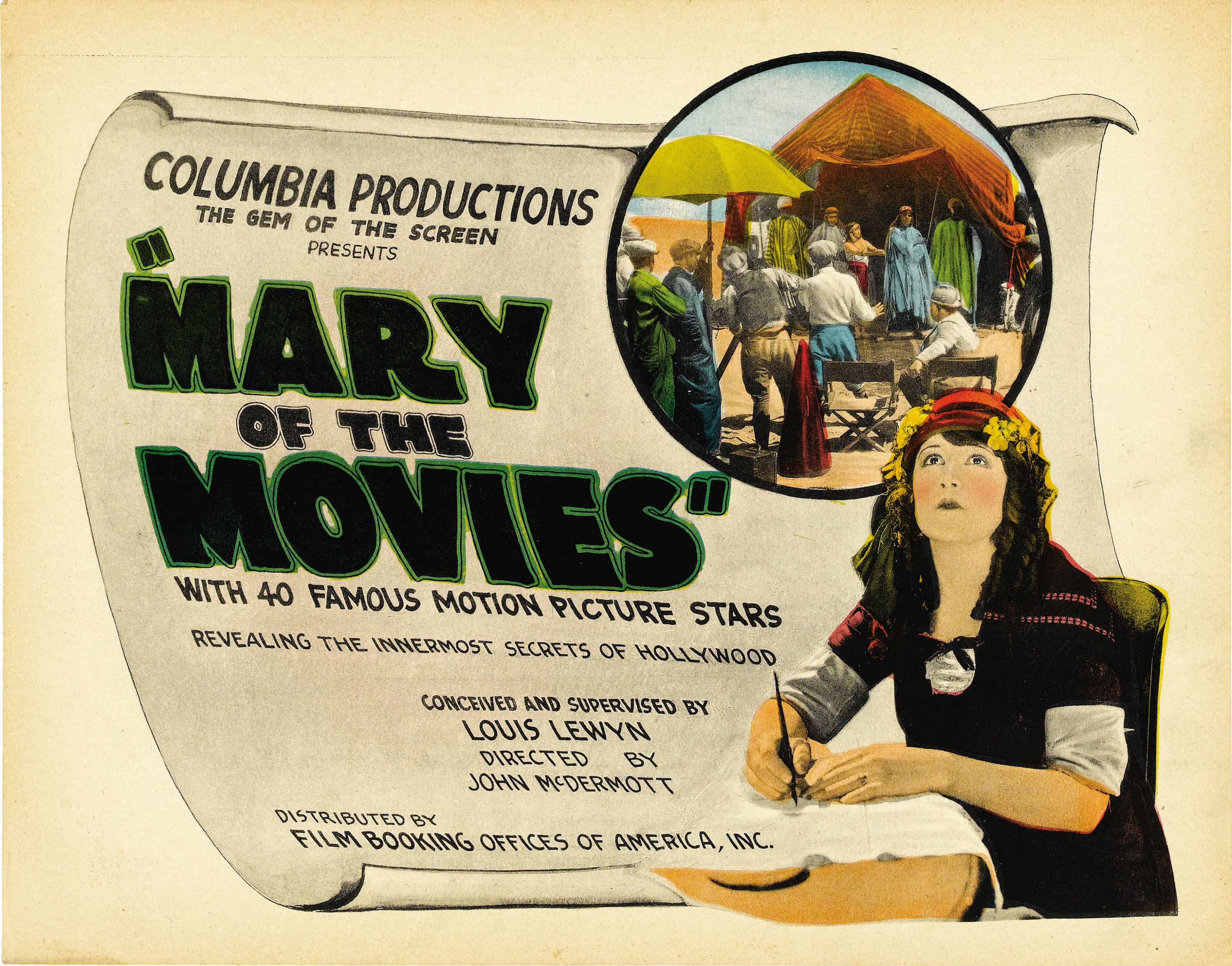 This is a lobby card for the 1923 American silent semi-autobiographical comedy film Mary of the Movies.